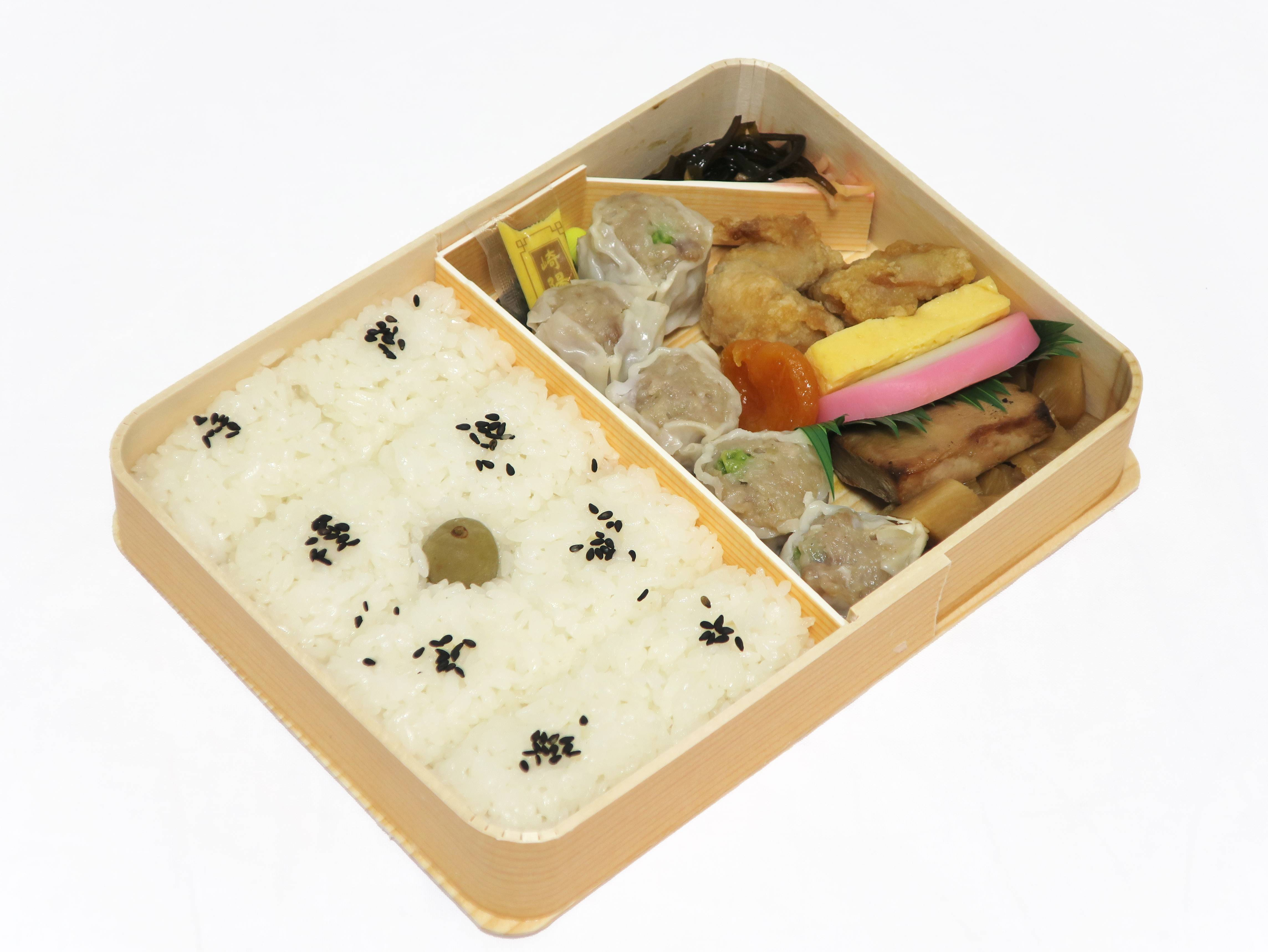 Kiyoken Shumai Bento.